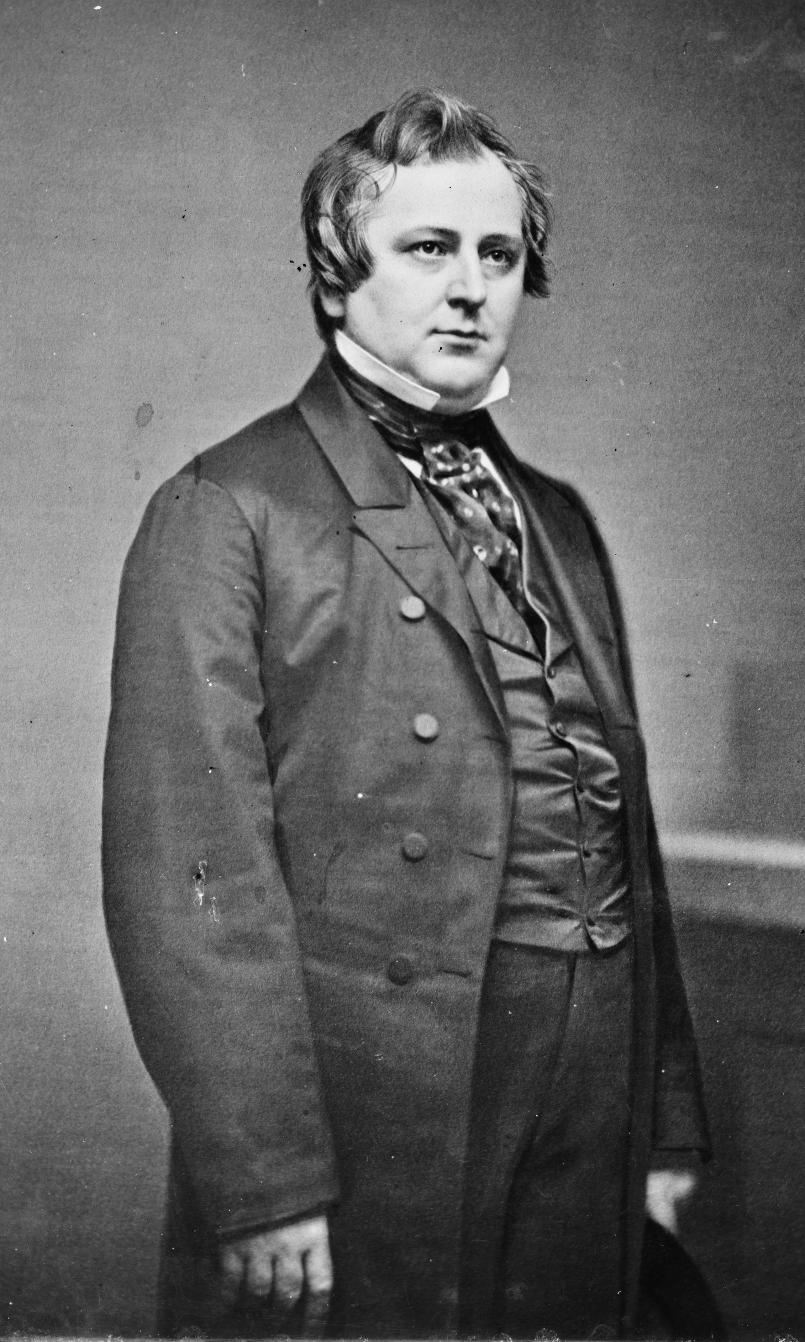 William C. Preston. Library of Congress description: "Hon. Wm. Campbell Preston of S.C."